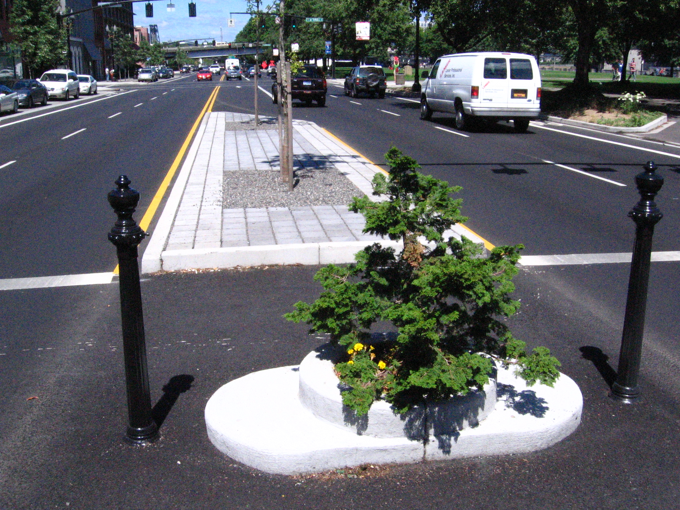 The smallest park Mill Ends Park